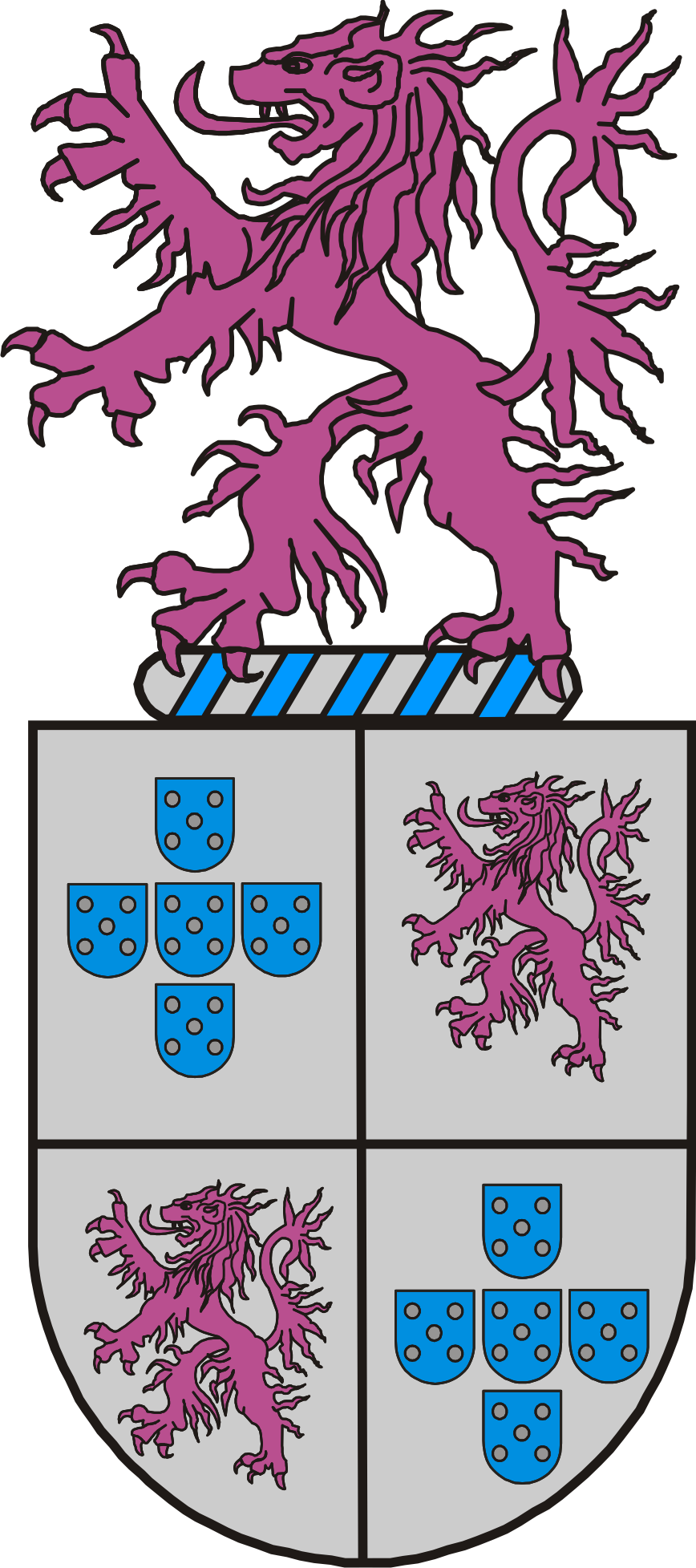 Sousas Brason